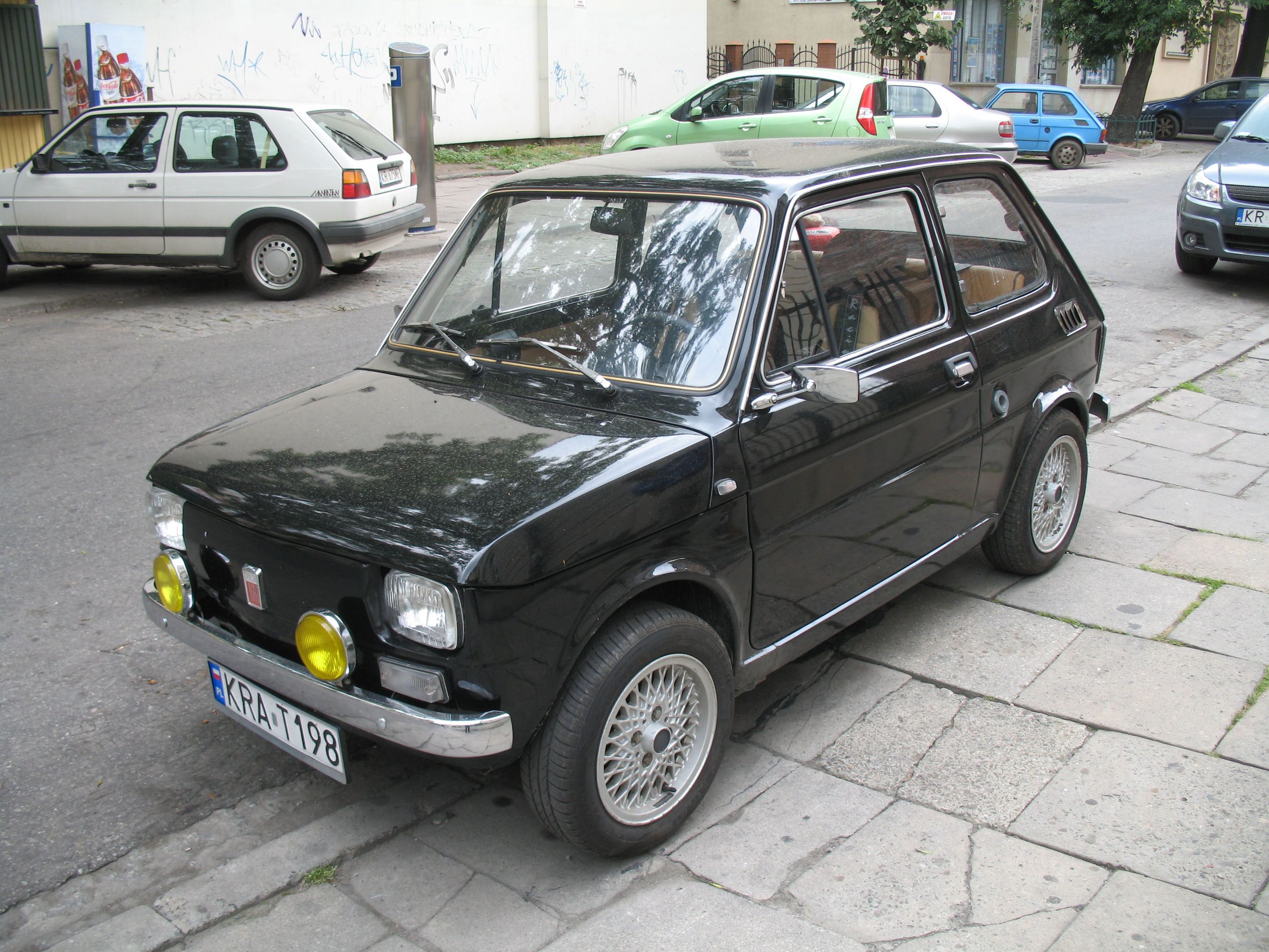 Polski Fiat 126p car in Kraków, Poland.